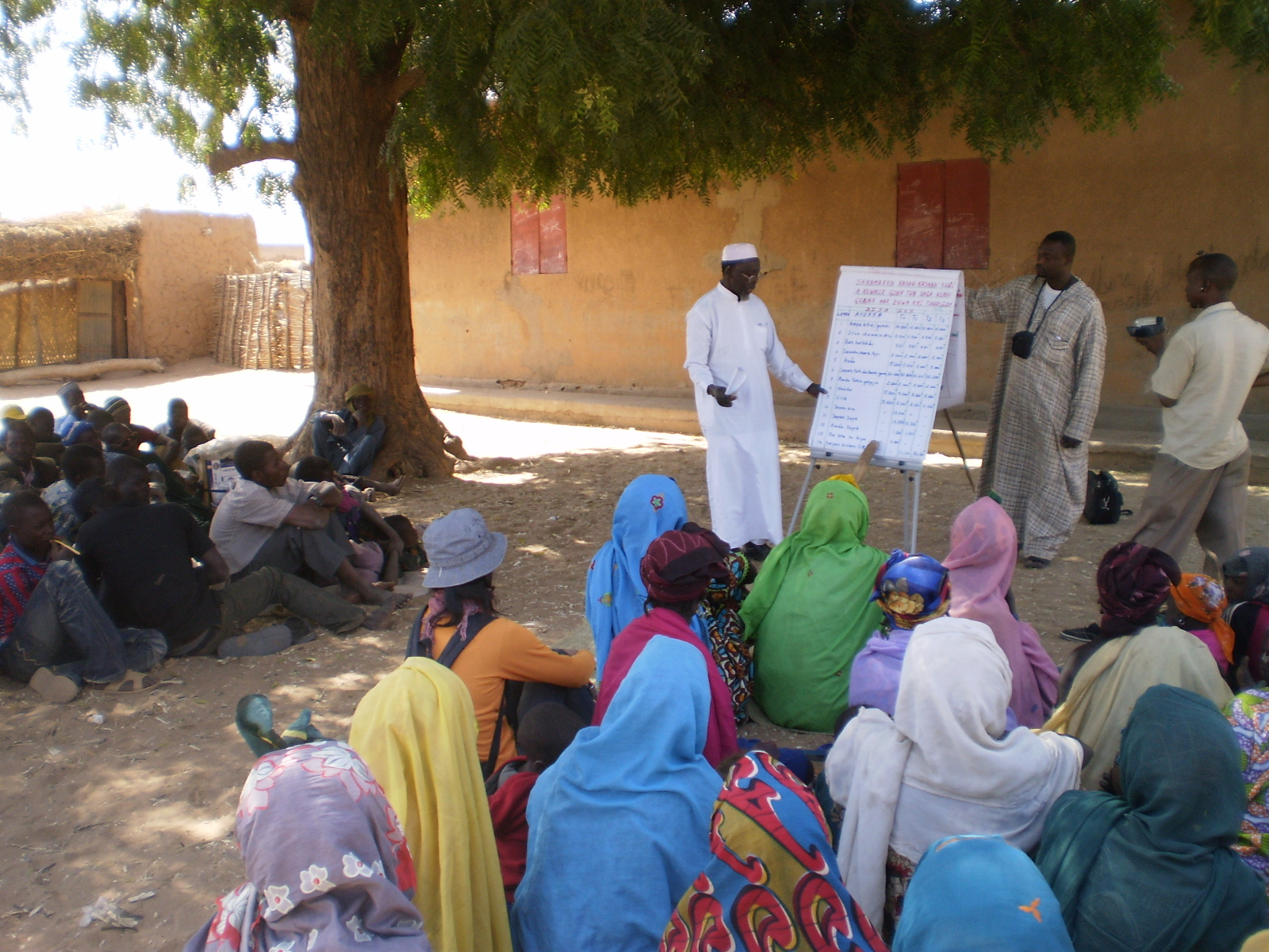 Niger - Productive Sanitation in Aguié Project